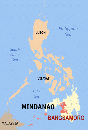 Map of the Philippines showing the location of the proposed Bangsamoro Political entity.